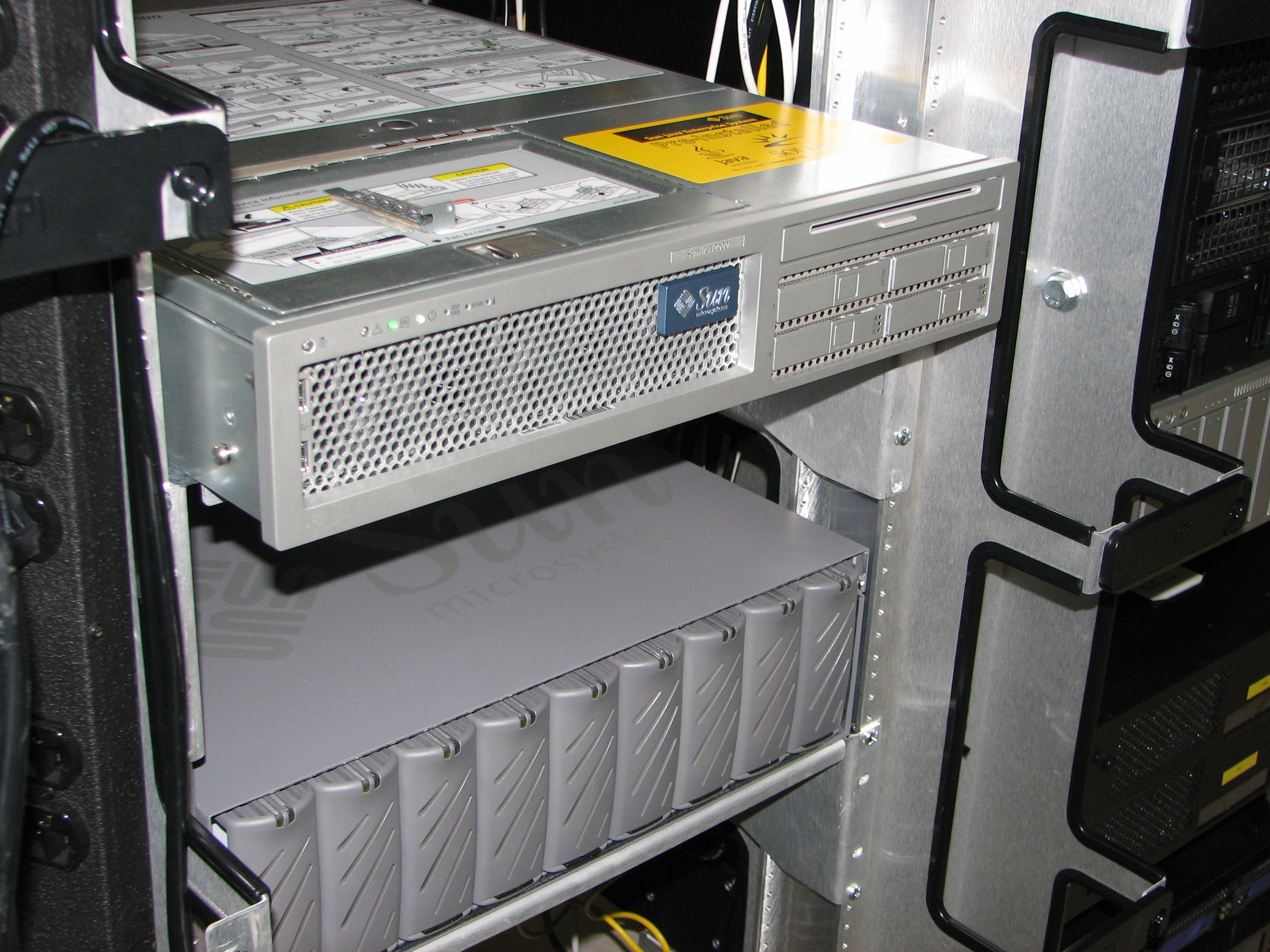 A Sun Fire T2000 with a Sun storage system (probably a StorEdge T3 without the front plate) mounted below it.